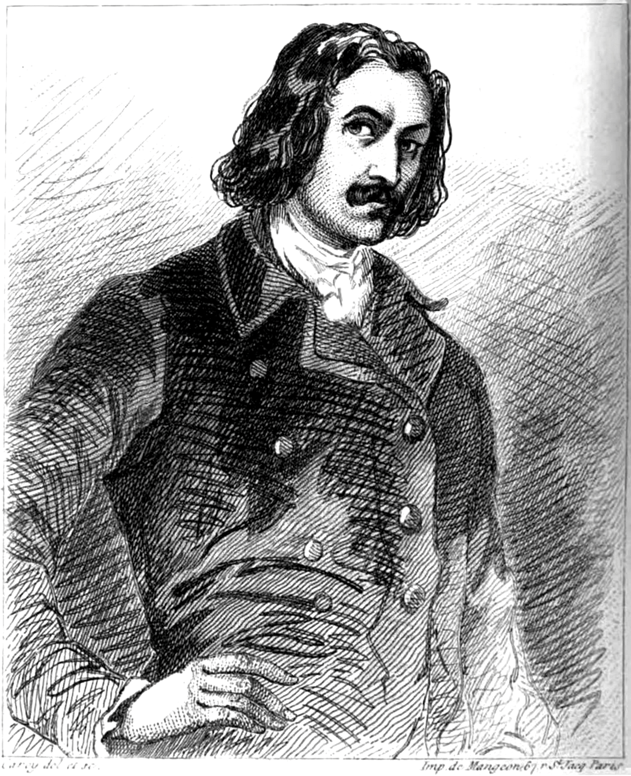 Engraving of Étienne Marin Mélingue (1807–1875), French actor and sculptor by Carey.